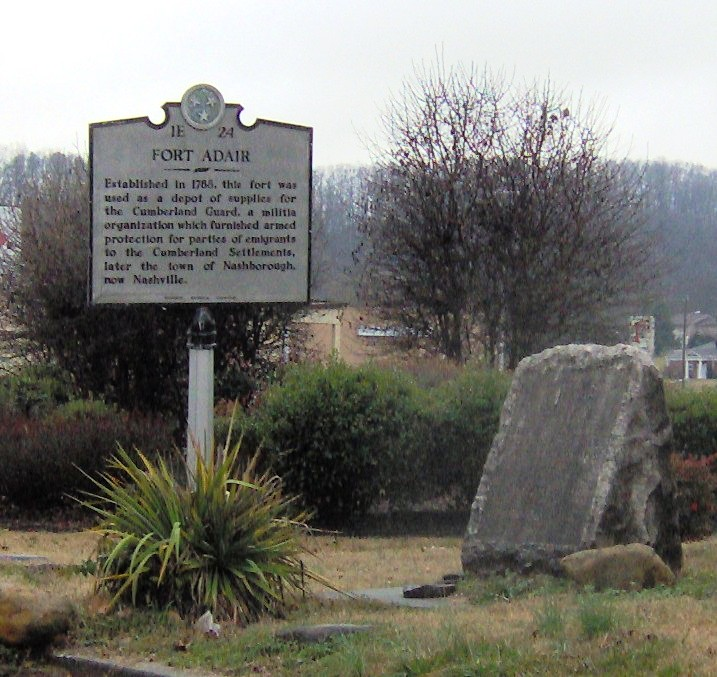 Tennessee Historical Commission marker and DAR monument recalling the site of Fort Adair (built c. 1791) in the Fountain City neighborhood of Knoxville, Tennessee, in the southeastern United States.